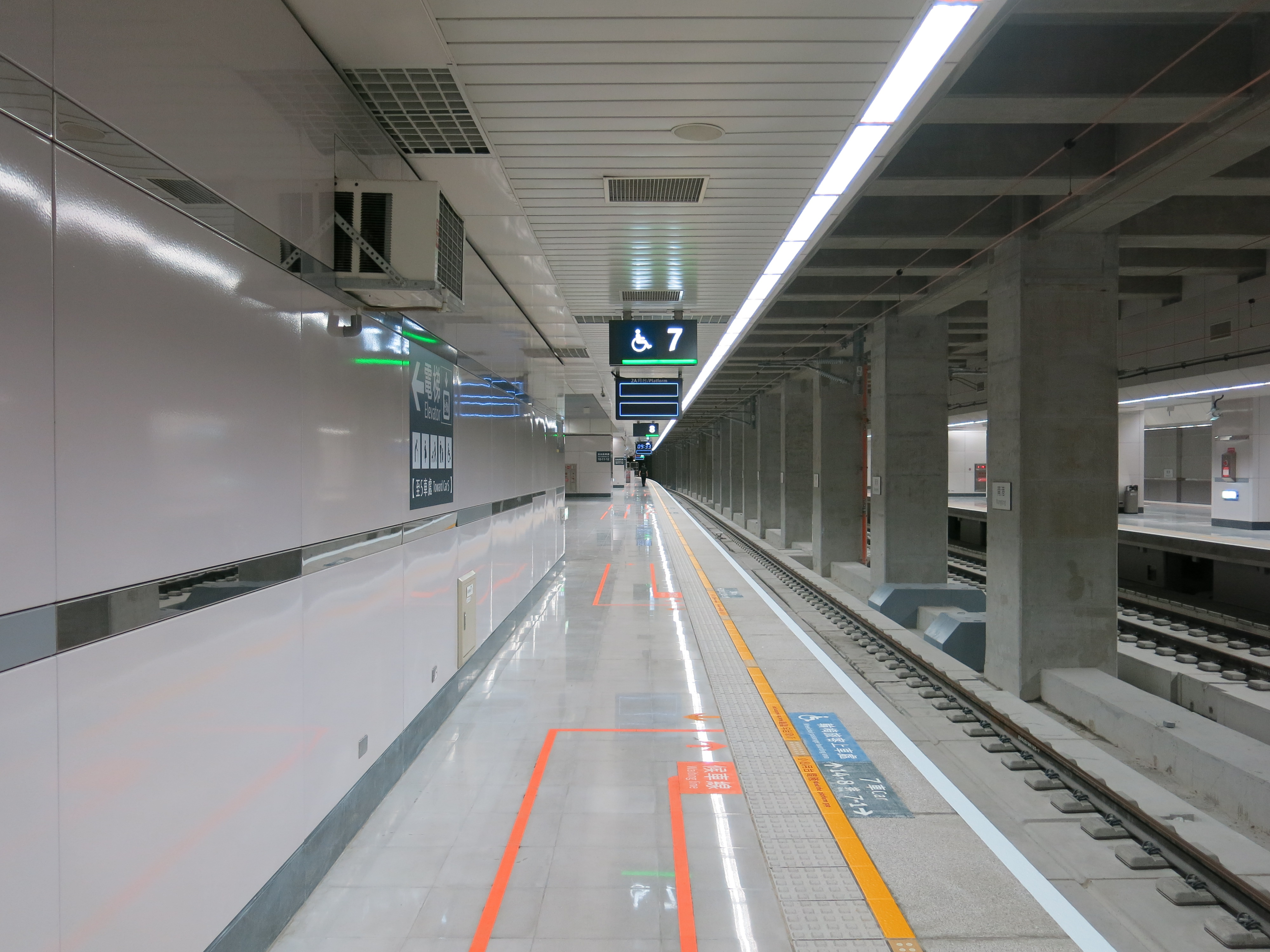 THSR Nangang Station platform 2B